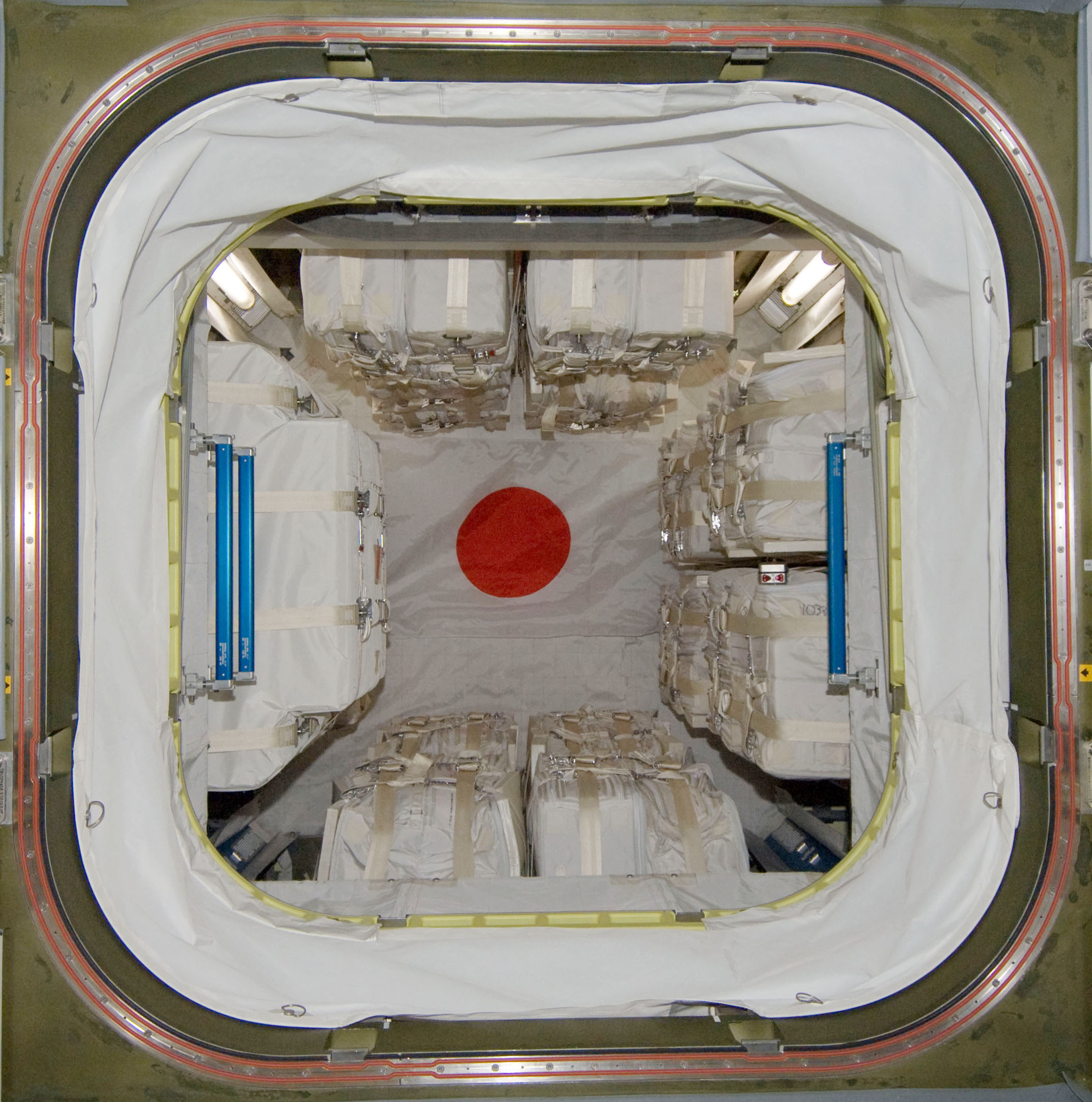 View of the interior of the newly attached Japanese H-II Transfer Vehicle (HTV) docked to the International Space Station, photographed by an Expedition 20 crew member in the Harmony node. The HTV attachment was completed at 5:26 p.m. on Sept. 17, 2009.